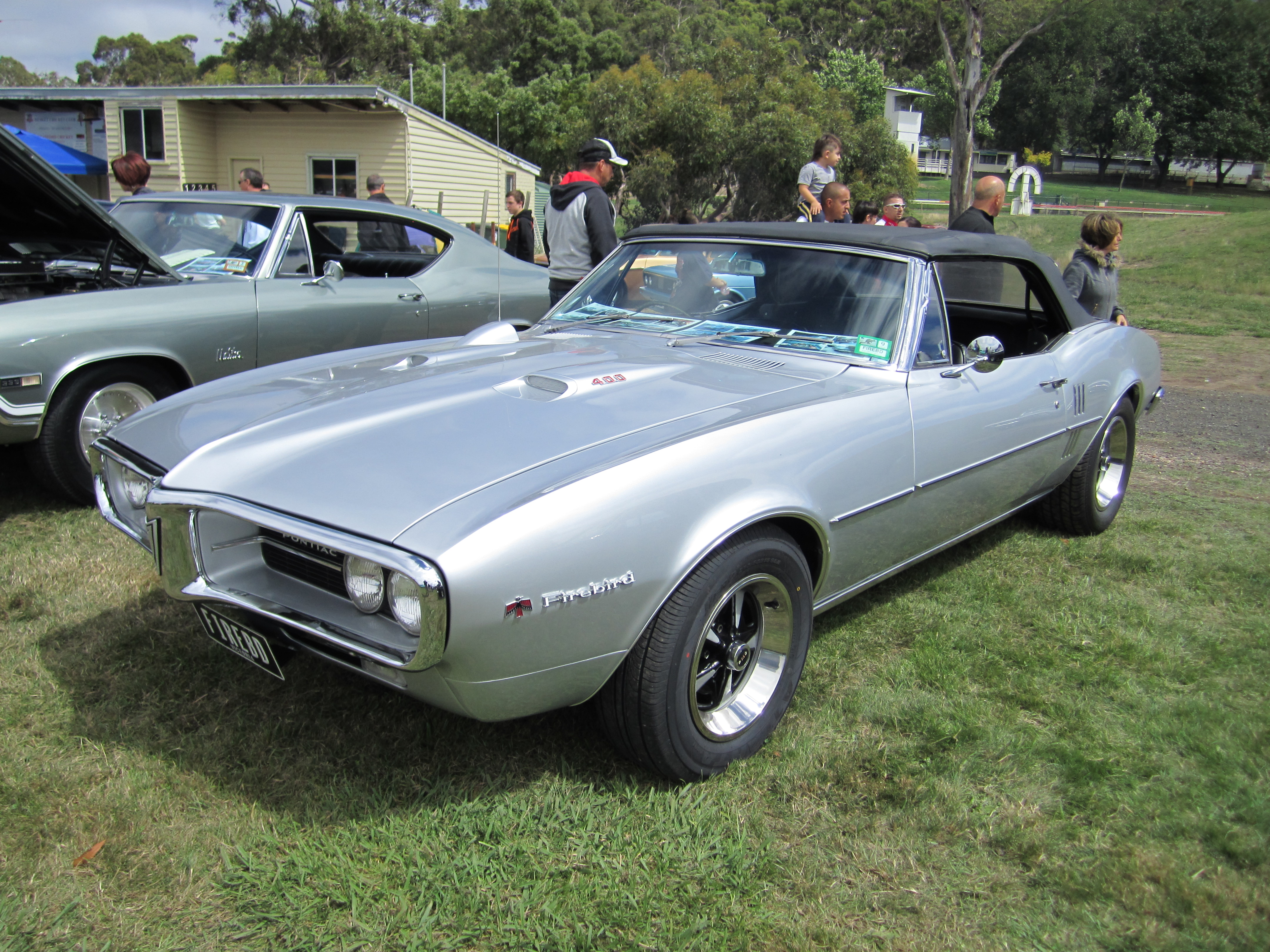 Hardtop also available Engines; 230 6 cyl, 250bhp 326, 325bhp 400 V8s